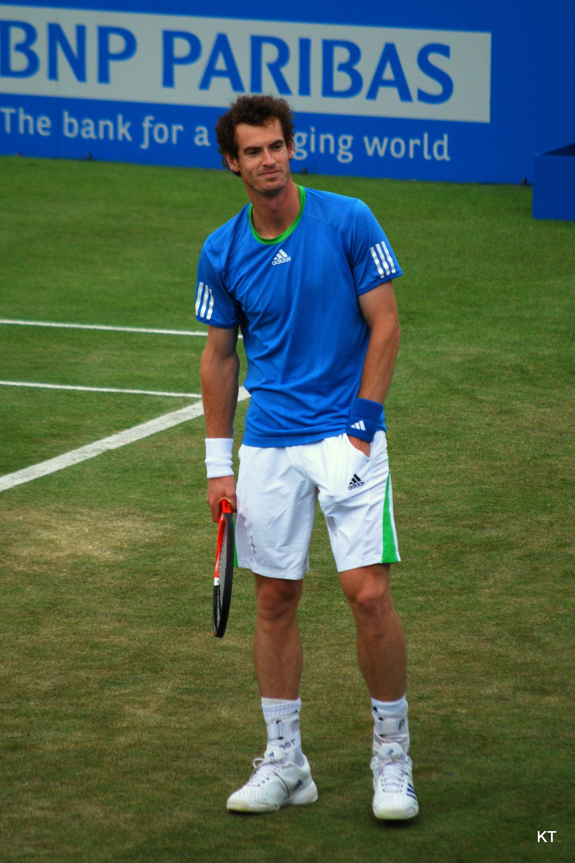 Andy Murray on Centre Court at Queen's Club during his match with Janko Tipsarevic